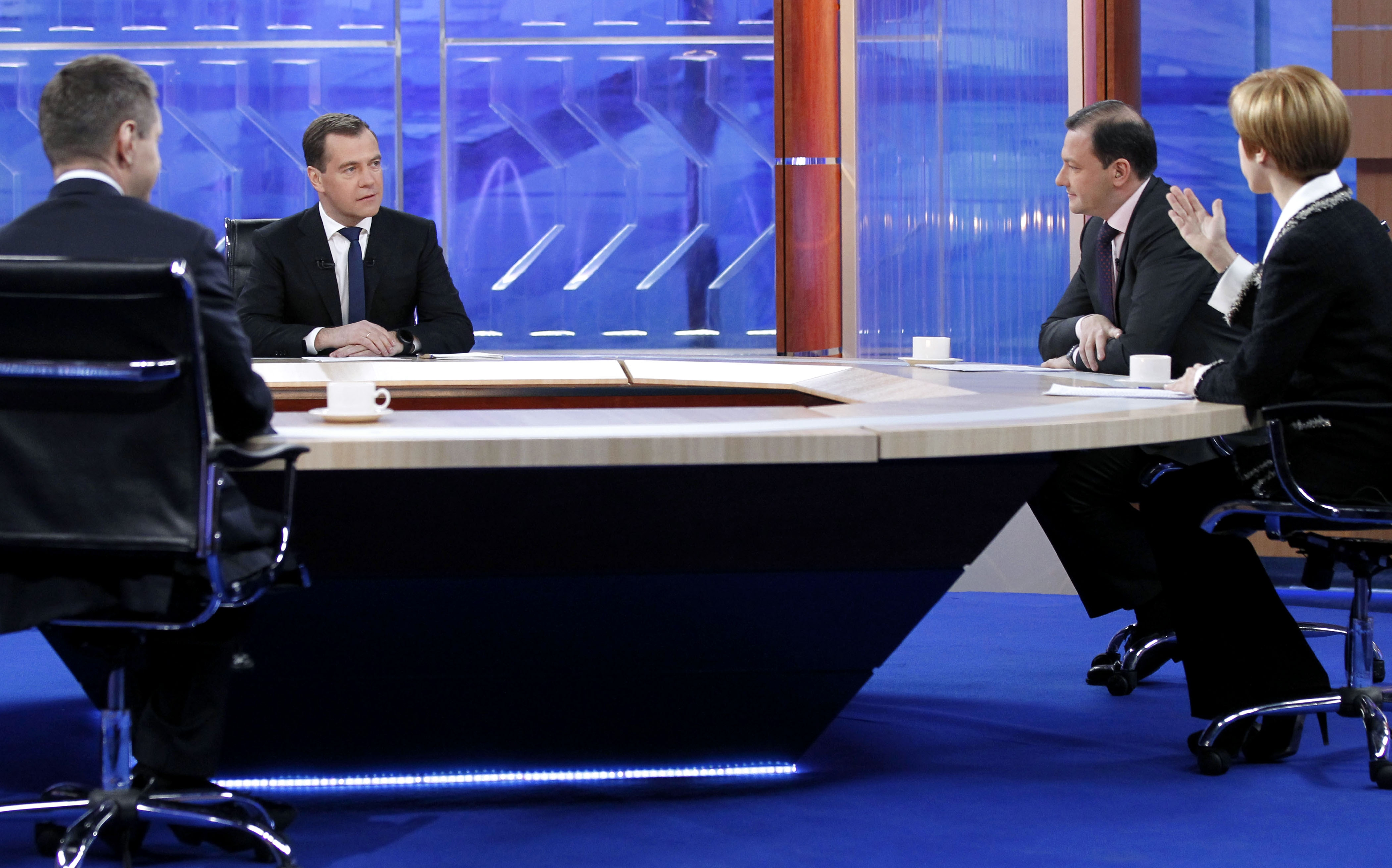 “A Conversation With Dmitry Medvedev.” Prime Minister Dmitry Medvedev interviewed by five TV channels (2012-12-07).